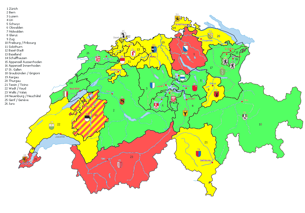 Breed-specific legislation in Switzerland, April 2014. Red: Breed-specific legislation enacted, breeds on the list are banned. Yellow: BSL enacted, breeds on the list are subject to authorization. Red/yellow: BSL enacted, some of the breeds on the list are banned. Green/yellow: BSL planned. Green: no BSL